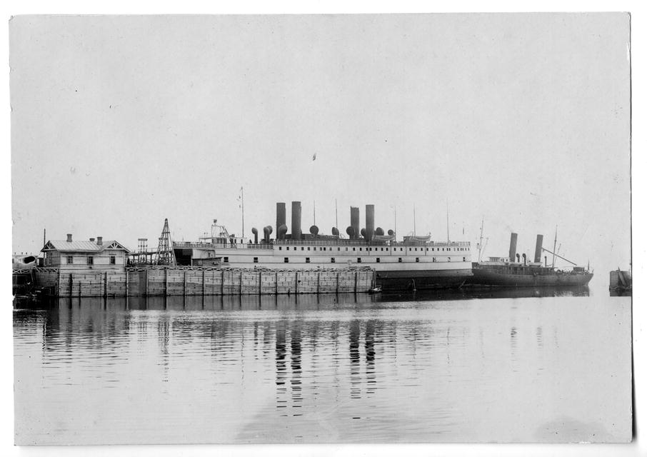 The icebreakers Baikal and Angara.